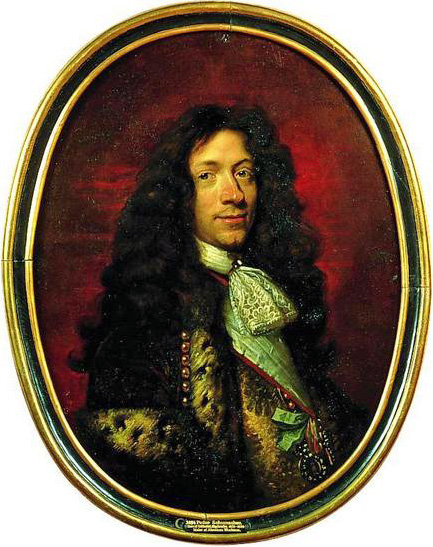 Portrait of Peder Schumacher, later known as Peder Griffenfeld